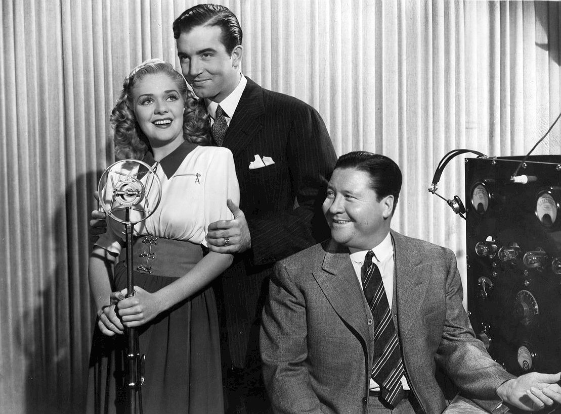 Photo from the 1941 film The Great American Broadcast. Pictured are Alice Faye, John Payne and Jack Oakie.